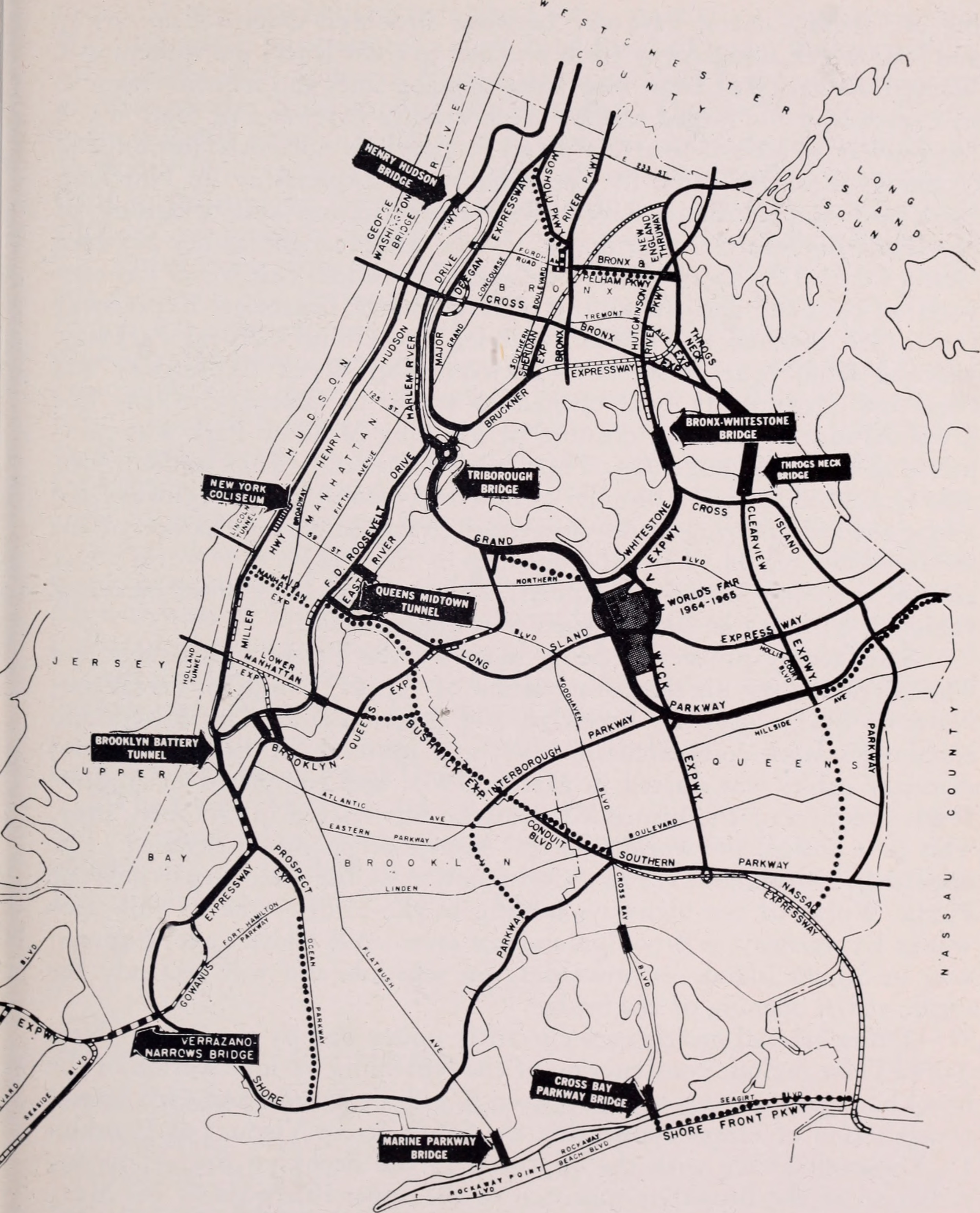 Title: 30 years of progress, 1934-1964 : Department of Parks : 300th anniversary of the City of New York : New York World's Fair. Year: 1964 (1960s) Authors: New York (N. Y. ). Department of Parks. Subjects: New York World's Fair (1964-1965 : New York, N. Y. ); Playgrounds Publisher: (New York?) : (publisher not identified) Text Appearing Before Image: ' Text Appearing After Image: L E G E N ATLANTIC OCEAN COMPLETED — UNDER CONSTRUCTION IN PLANNING FUTURE MILES 15 THE ARTERIAL SYSTEM